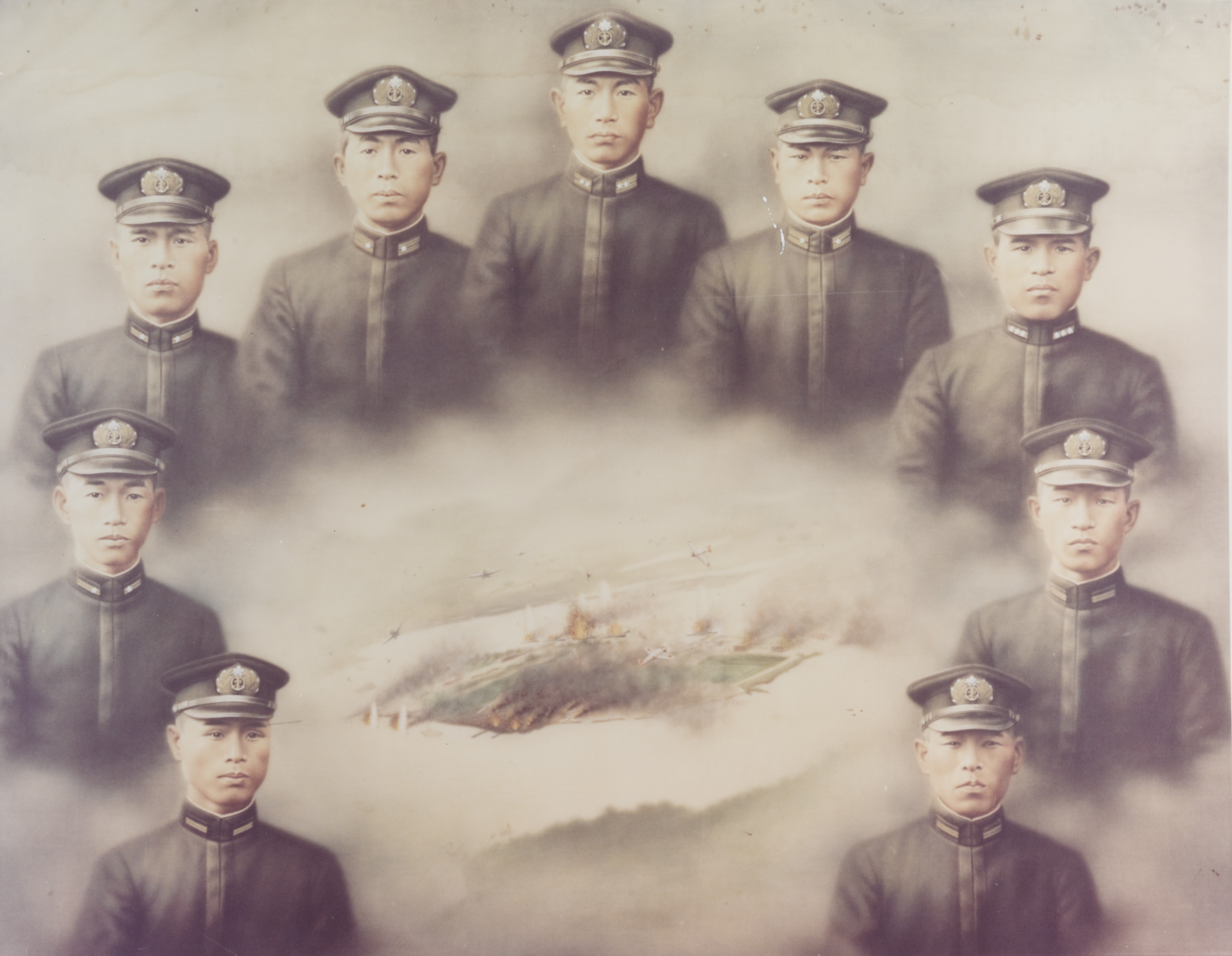 Wartime painting in oils on silk, by an unidentified Japanese artist, depicting the four officers and five crewmen who were lost with the five Japanese midget submarines that participated in the attack. Original caption: “Photo # NH 86388-KN Japanese midget submarine crewmembers lost in the Pearl Harbor attack”